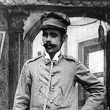 "General (Juan) Cailles, leading insurgent officer, Laguna, 1899-1901". Cropped version of the original downloaded from the source below.